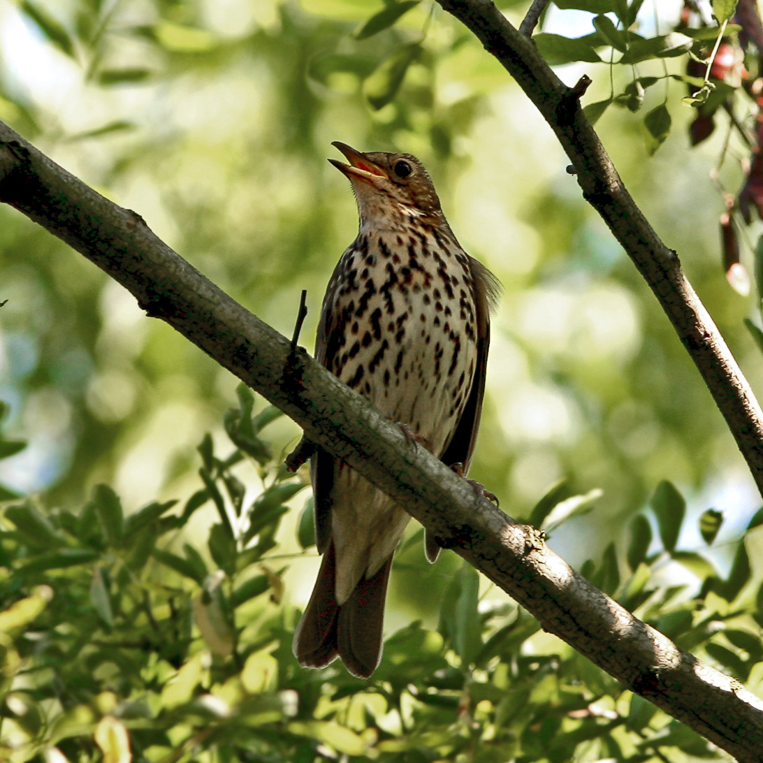 Song Thrush (Turdus philomelos) singing in a tree in the Netherlands